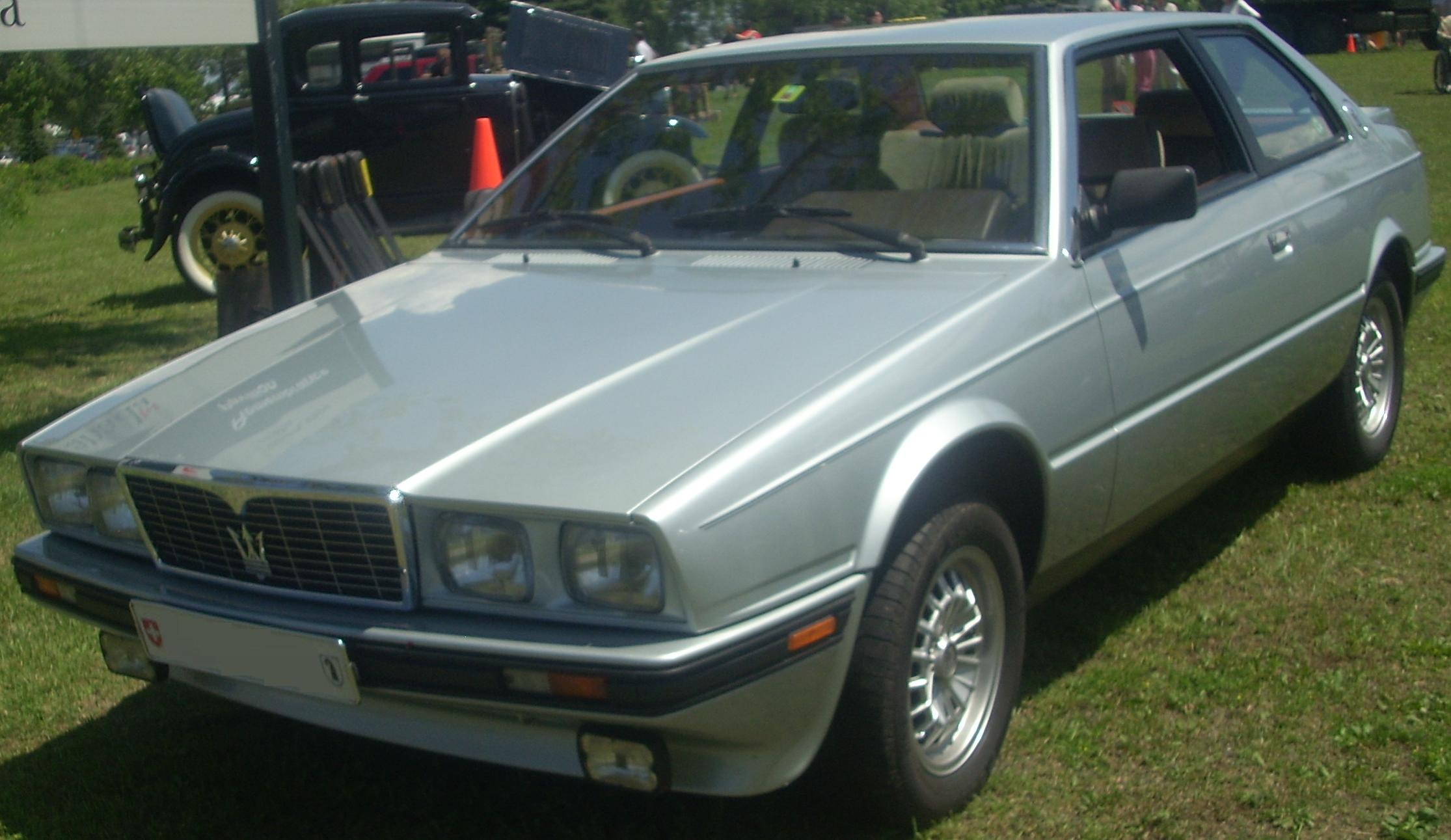 Maserati Biturbo photographed in Ste. Anne De Bellevue, Quebec, Canada at the 2010 Ste. Anne De Bellevue Veteran's Hospital Auto Show.